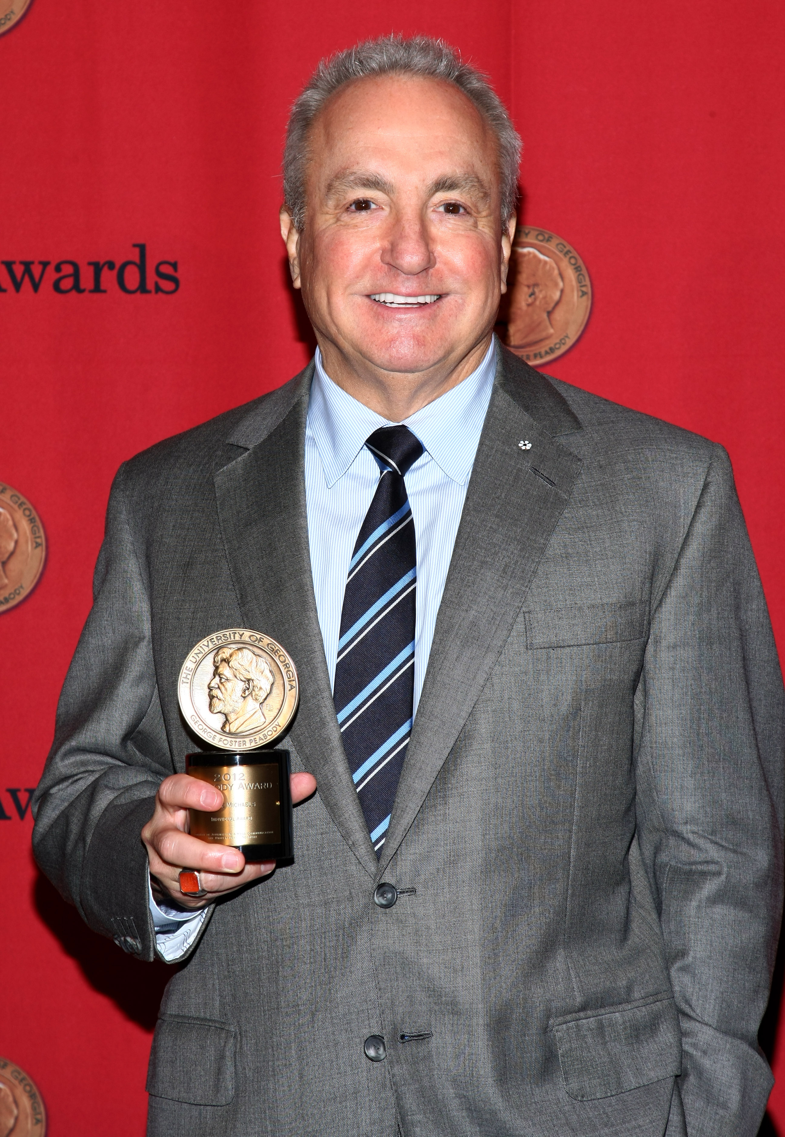 PHOTO CREDIT: ANDERS KRUSBERG / PEABODY AWARDS Lorne Michaels with his Individual Award 72nd Annual Peabody Awards Luncheon Waldorf-Astoria Hotel May 20, 2013